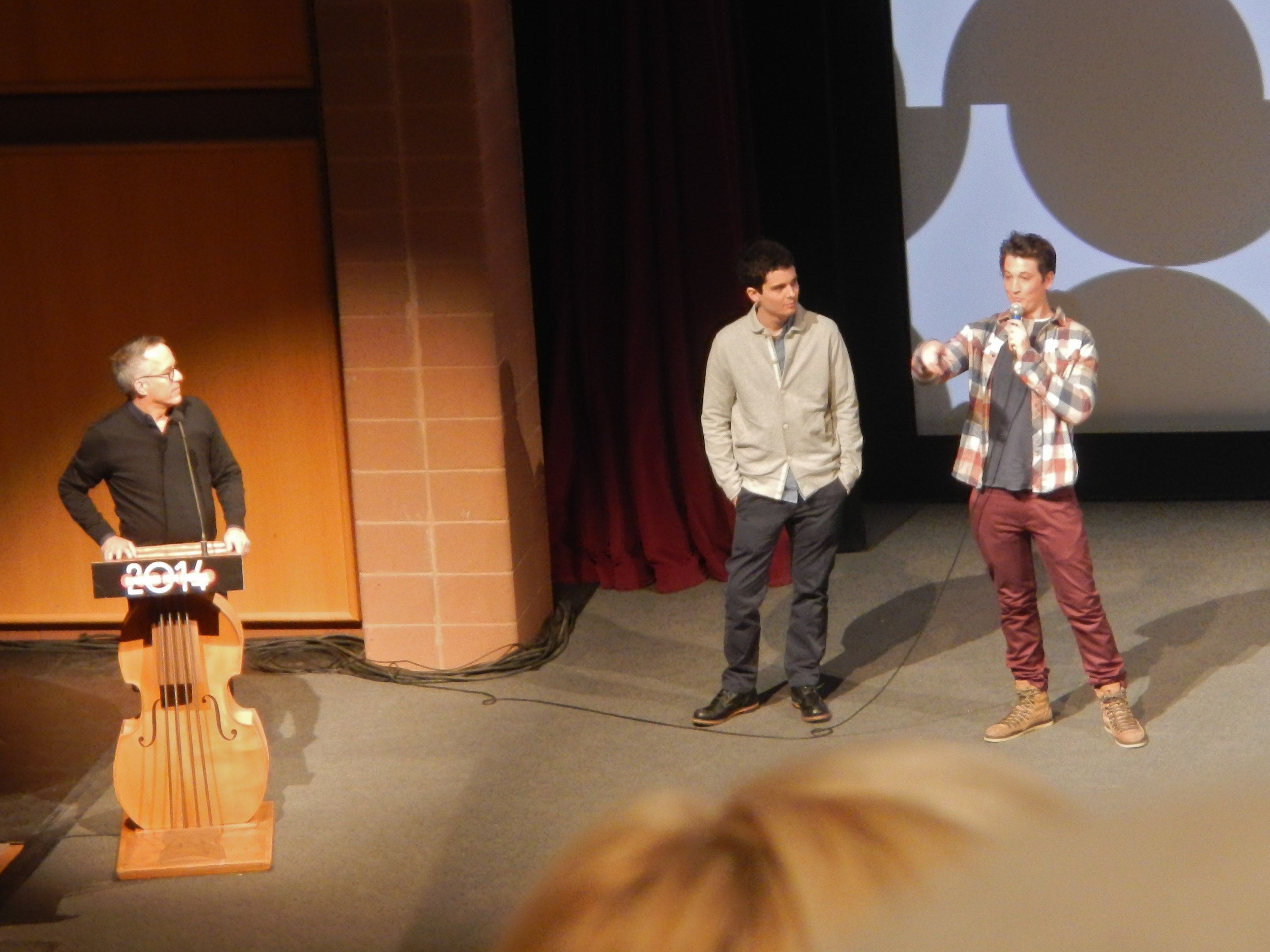 "Whiplash" at Sundance 2014